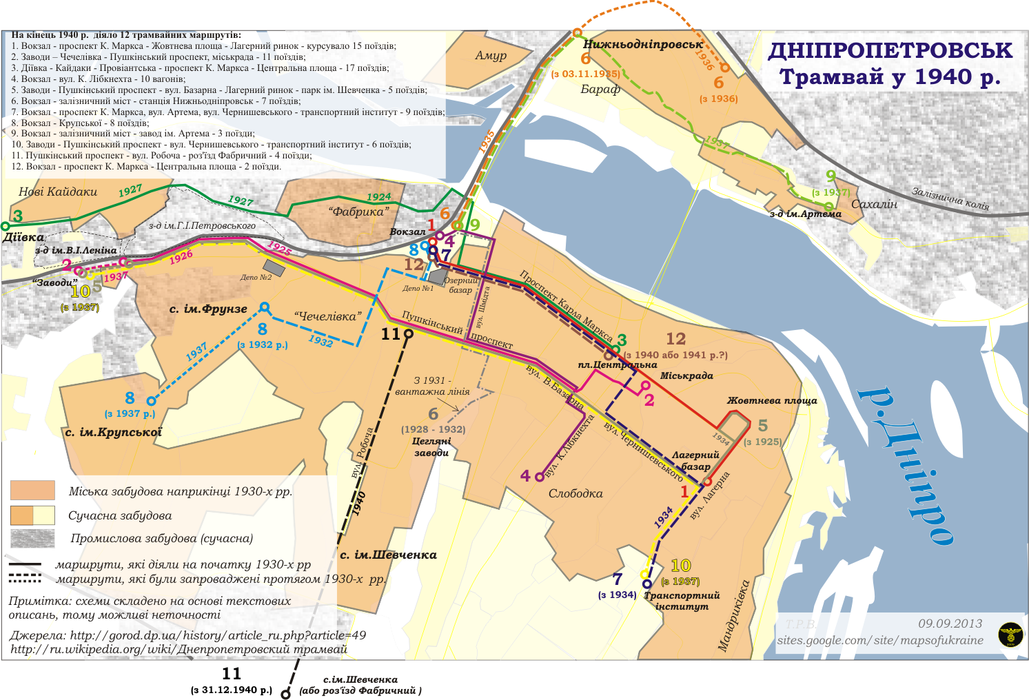 Scheme Dnepropetrovsk tram routes in 1940